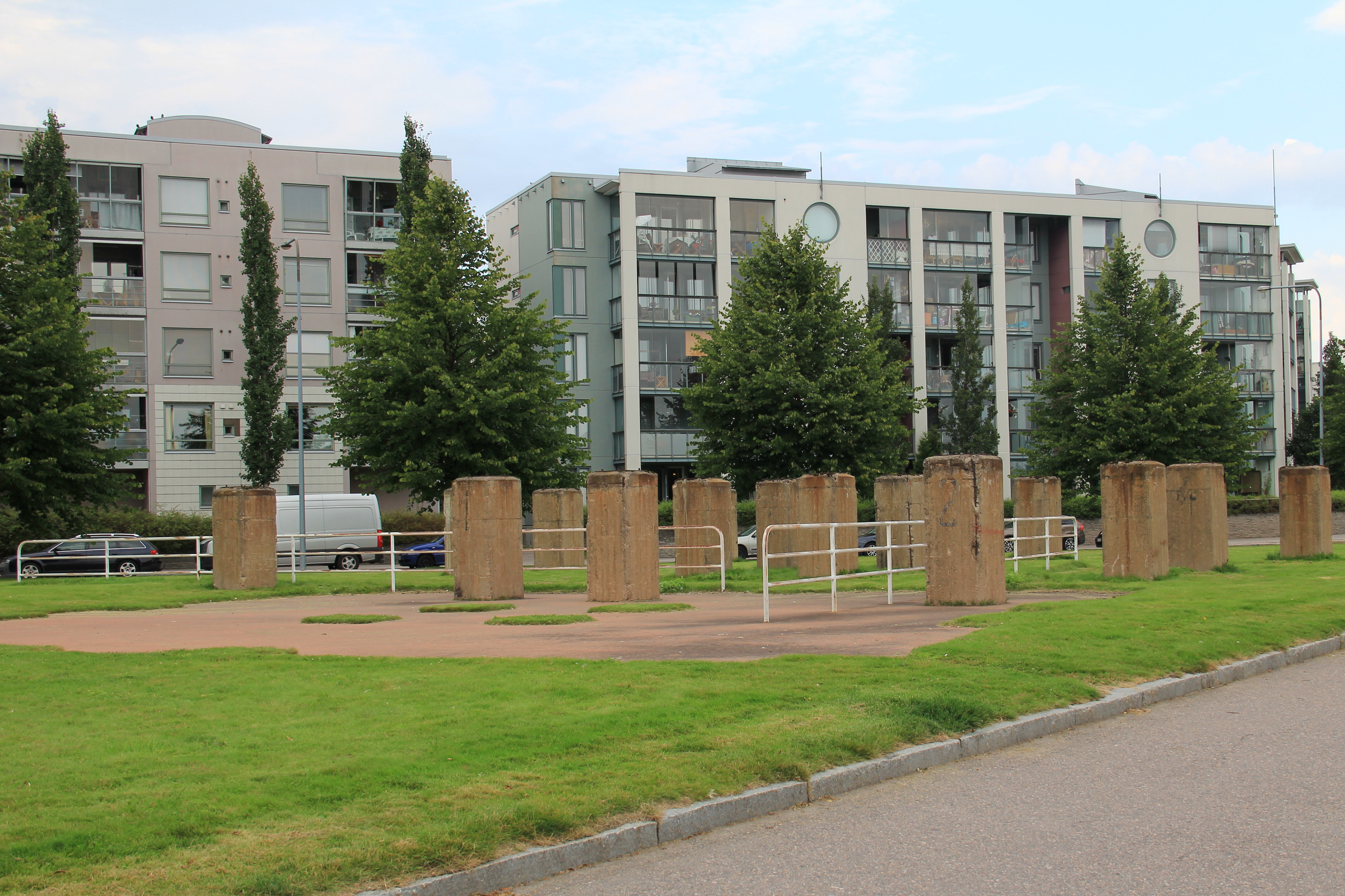 Foundations of Saseka plant cranes used to unload sand from ships, Hiekkajaalanpuisto park, Kallahti, Helsinki, Finland. -Saseka plant was active in 1935-1961 manufacturing i.a. sandlime bricks. Concrete foundations of cranes left to remind of residential area's former industrial history.